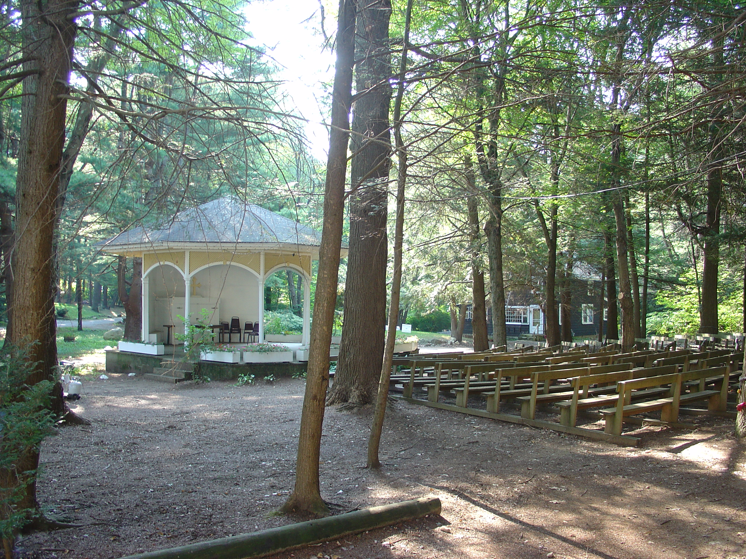 "Vesper Circle: Outdoor worship under the pines" Asbury Grove Hamilton, Massachusetts Asbury Grove was established in 1859 as a Methodist summer camp meeting, and just celebrated its 150th anniversary as an active Christian community. The Asbury Grove Historical District was accepted for inclusion to the National Register of Historic Place in November, 2009, #09000935.